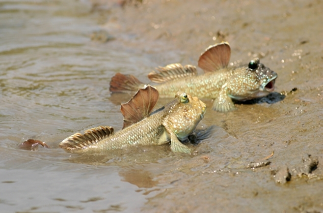 Mudskipper